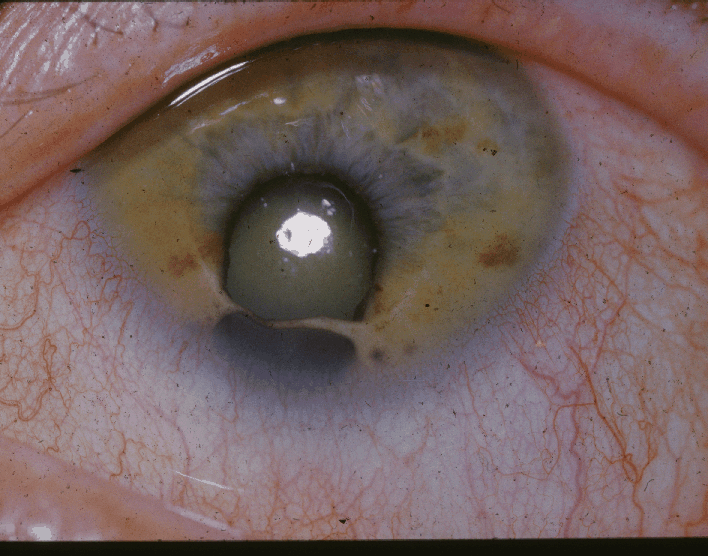 The patient was a 67-year-old male with congenital coloboma of the iris bilaterally (only the left eye is shown)